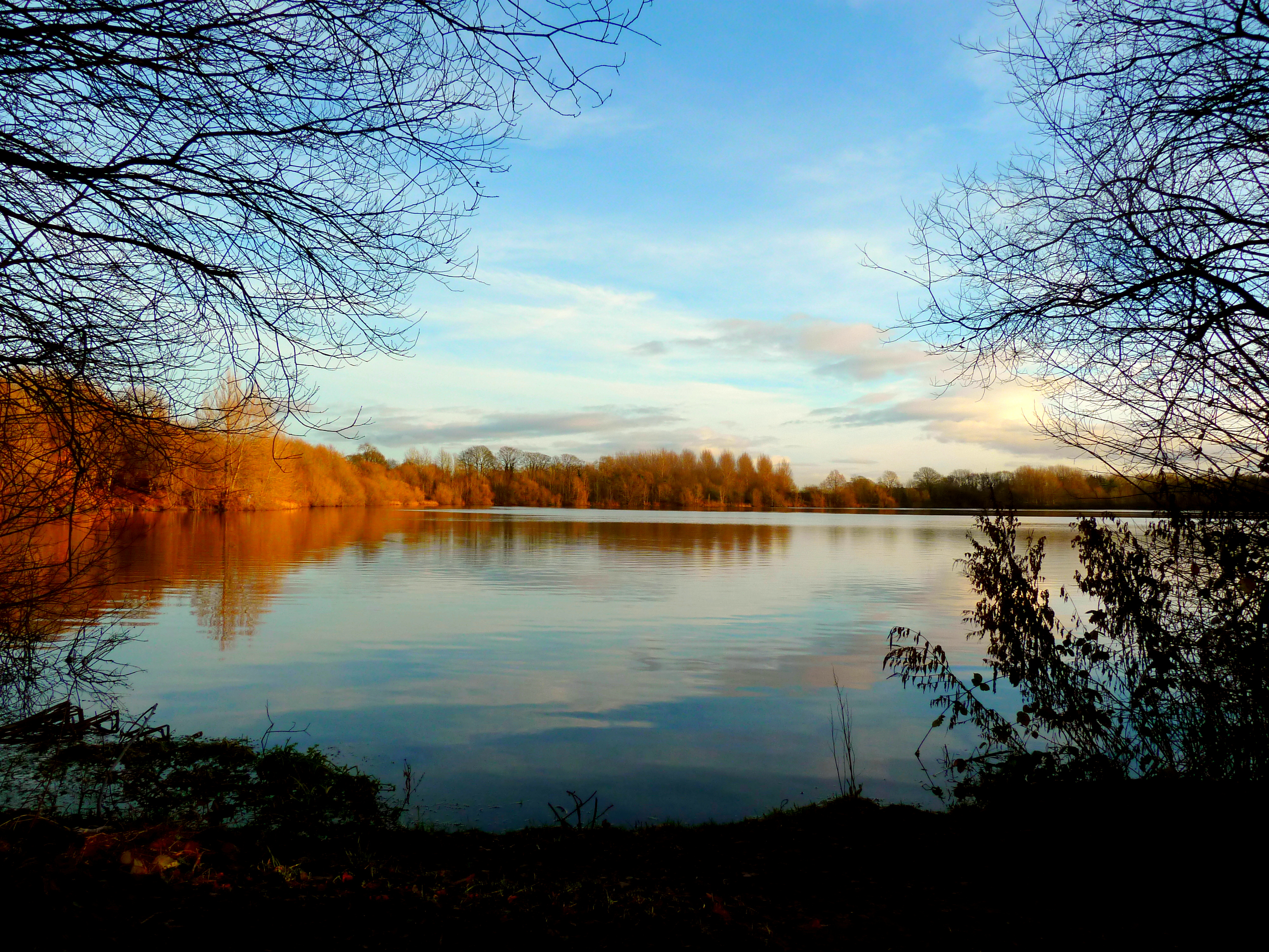 Hay-a-Park nature reserve, adjacent to the east side of Knaresborough, North Yorkshire, England. This area has been designated a Site of Special Scientific Interest (SSSI. The site has no main entrance, no visitor facilities and no car park. It has a large lake with a few smaller lakes at the south end of the site, some woodland, and some fields maintained by grazing. Showing the area around the large lake.